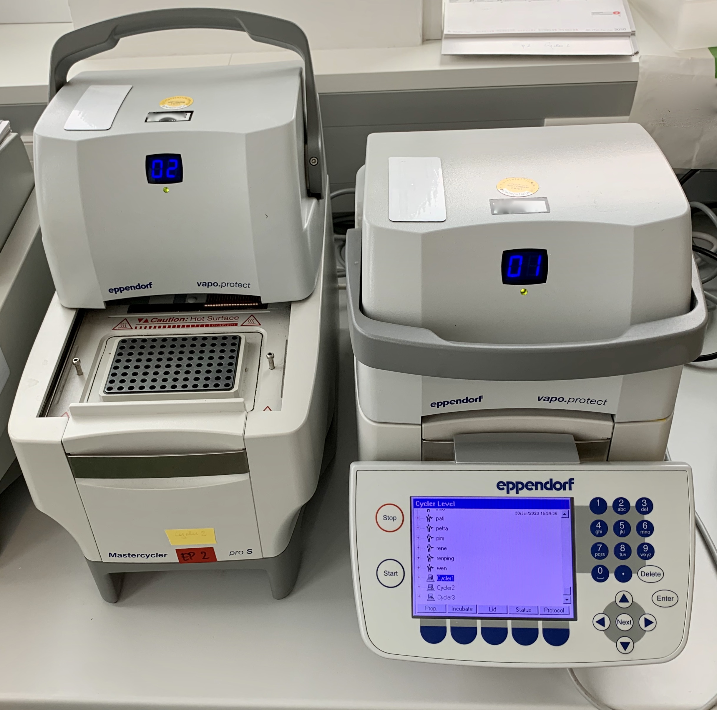 Eppendorf Mastercycler Pro S, a thermal cycler for PCR and other applications